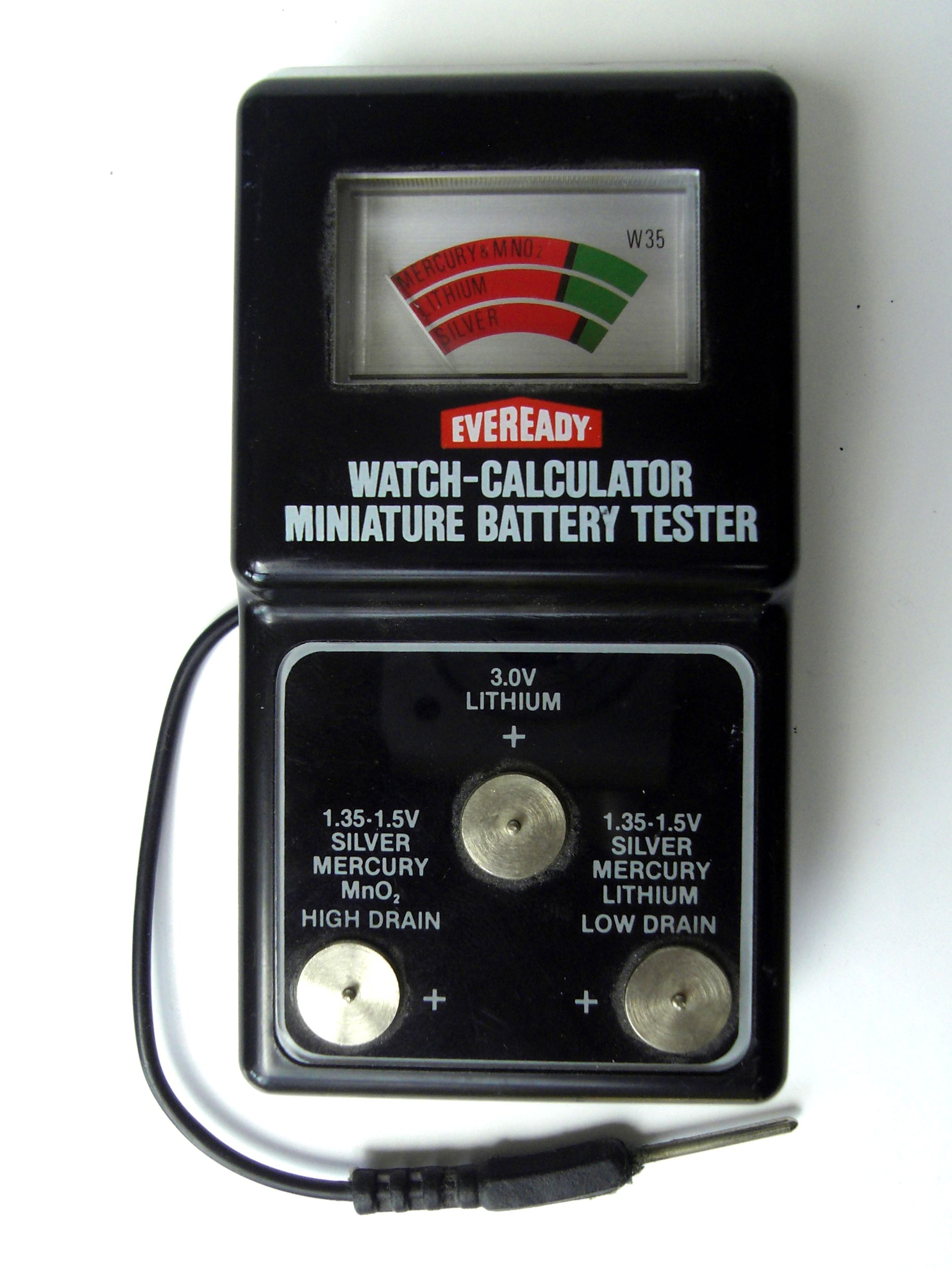 Battery tester for coin cells